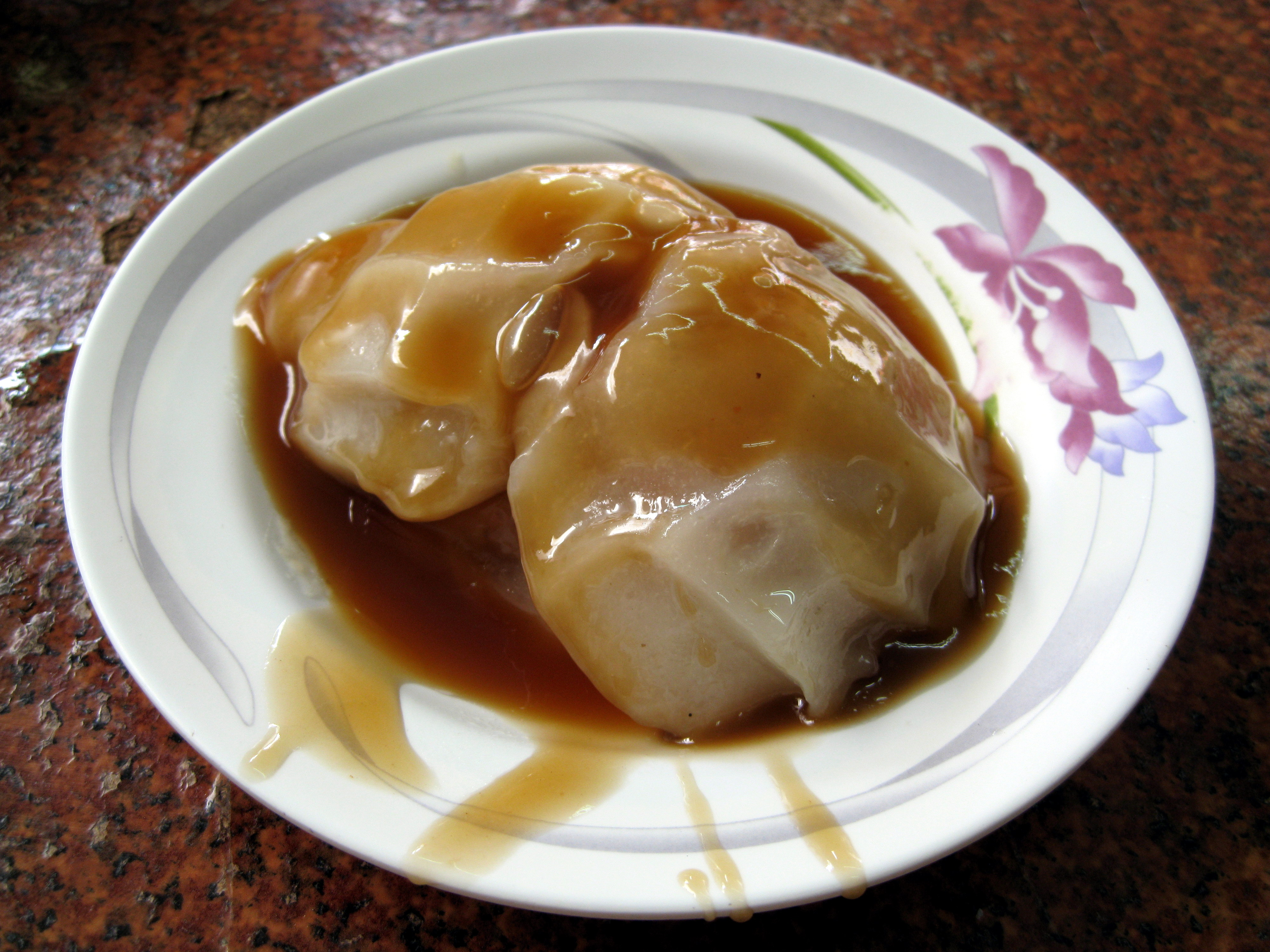 Tainan style Ba-wan, Umiao Ba-wan(武廟肉圓); Taiwanese snack food 中文（台灣）: 武廟肉圓 - 台南